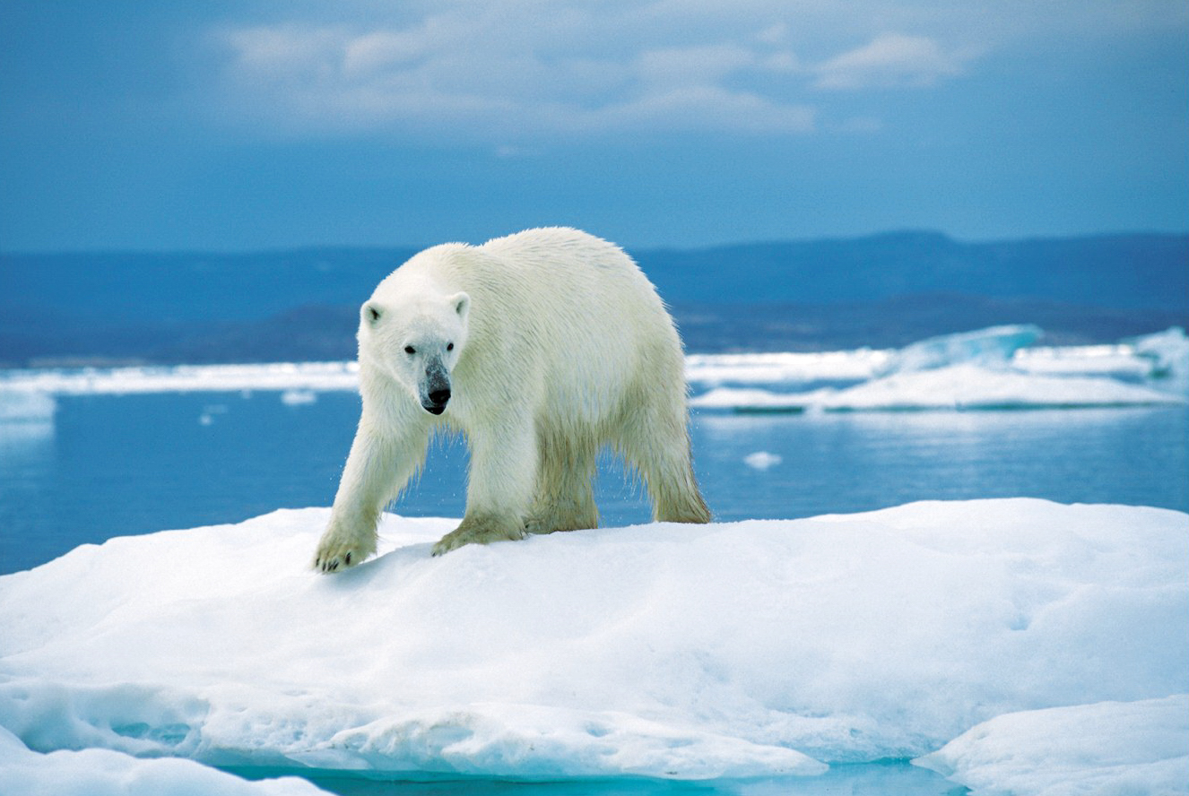 Polar bear on ice flow in Wager Bay (Ukkusiksalik National Park, Nunavut, Canada)